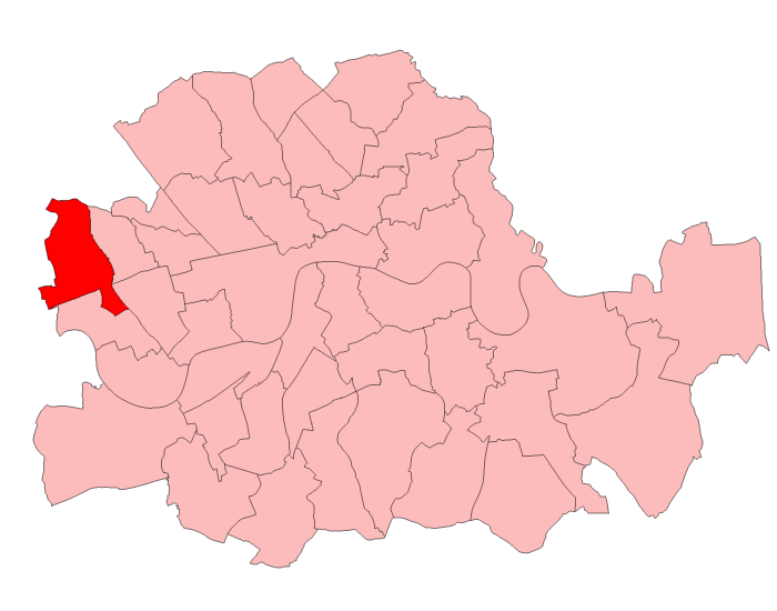 A map of Hammersmith North constituency within the London County Council area, as it existed from 1955 to 1974.